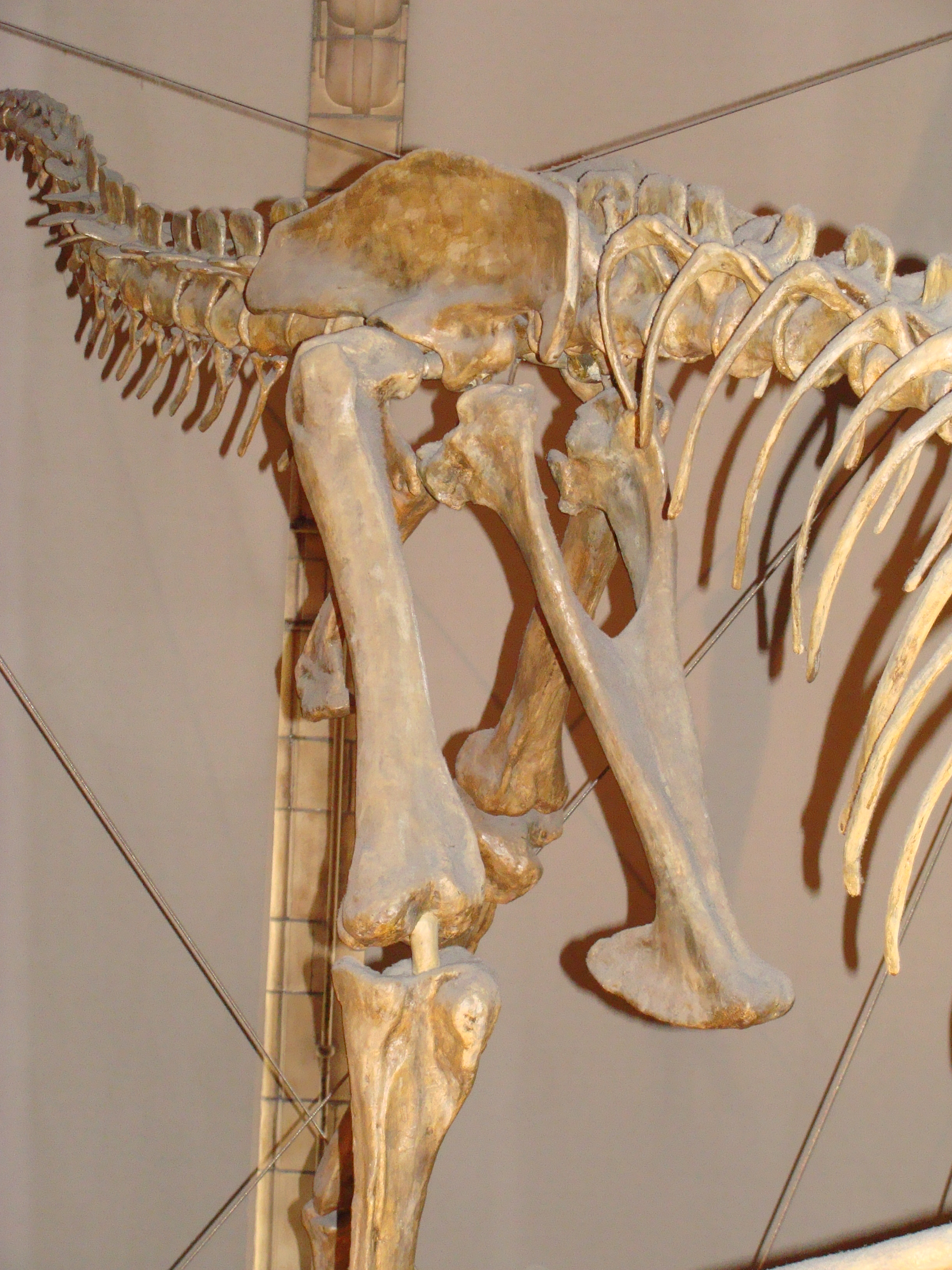 Gallimimus bullatus in the Natural History Museum of London